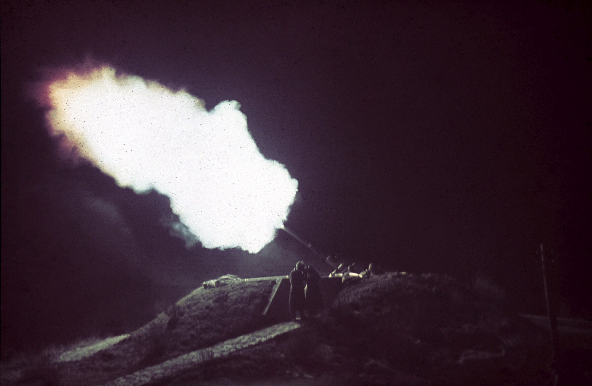 76,2 mm Bofors Anti-aircraft gun firing in Taivaskallio, Helsinki